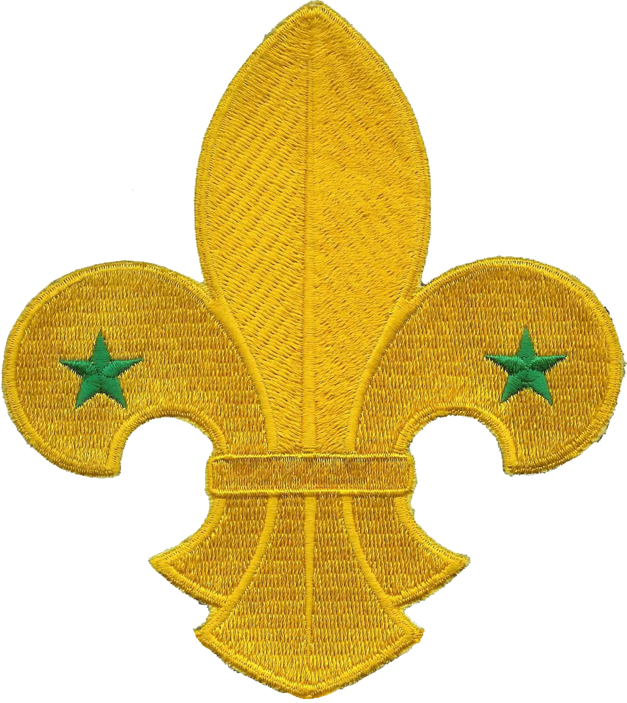 PNG version of File:Scout_logo5.jpg